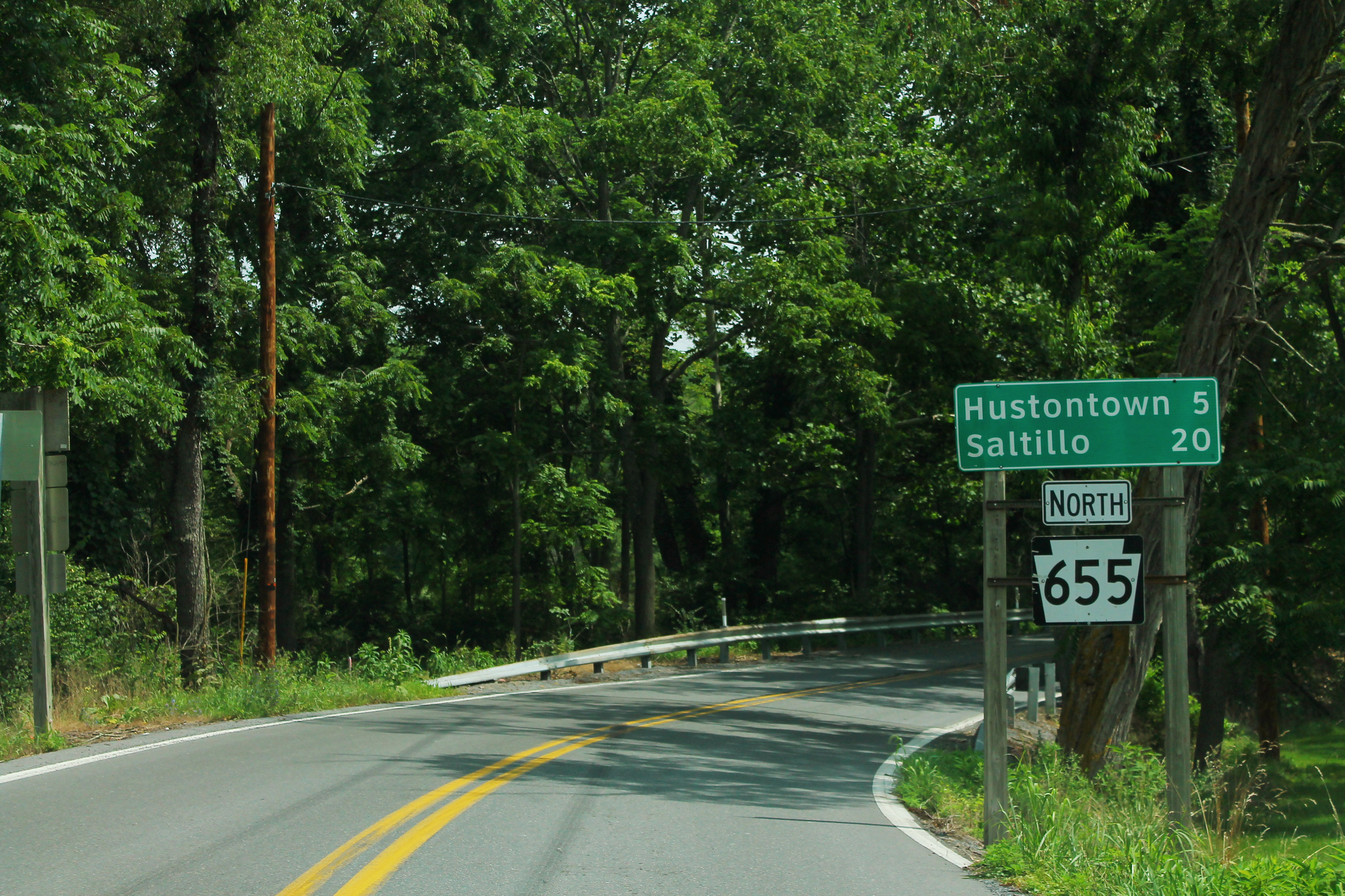 PA655nRoadSign-NearUS30